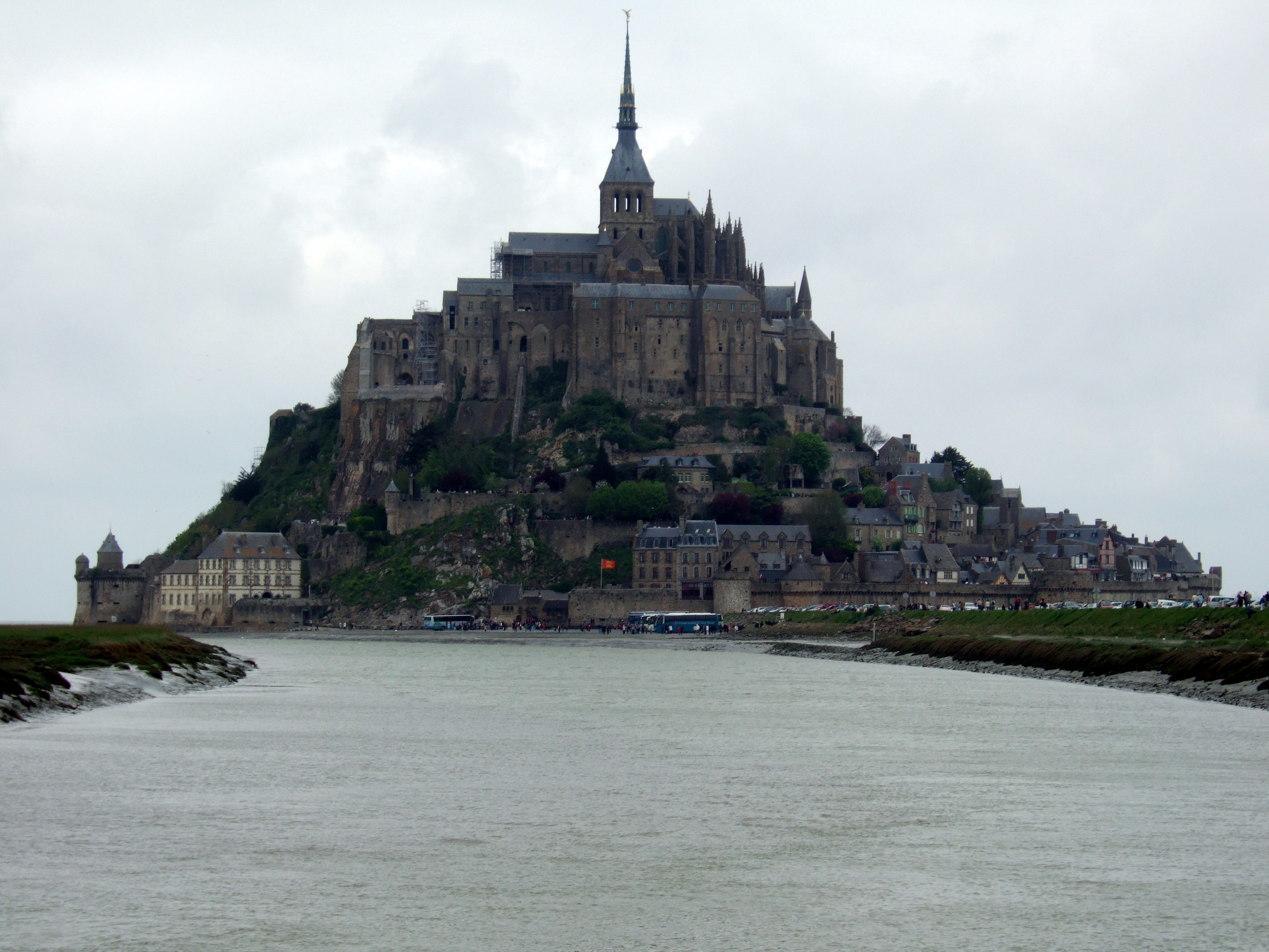 Yet another view of Mont St Michel, but showing the mouth of the river Couesnon.